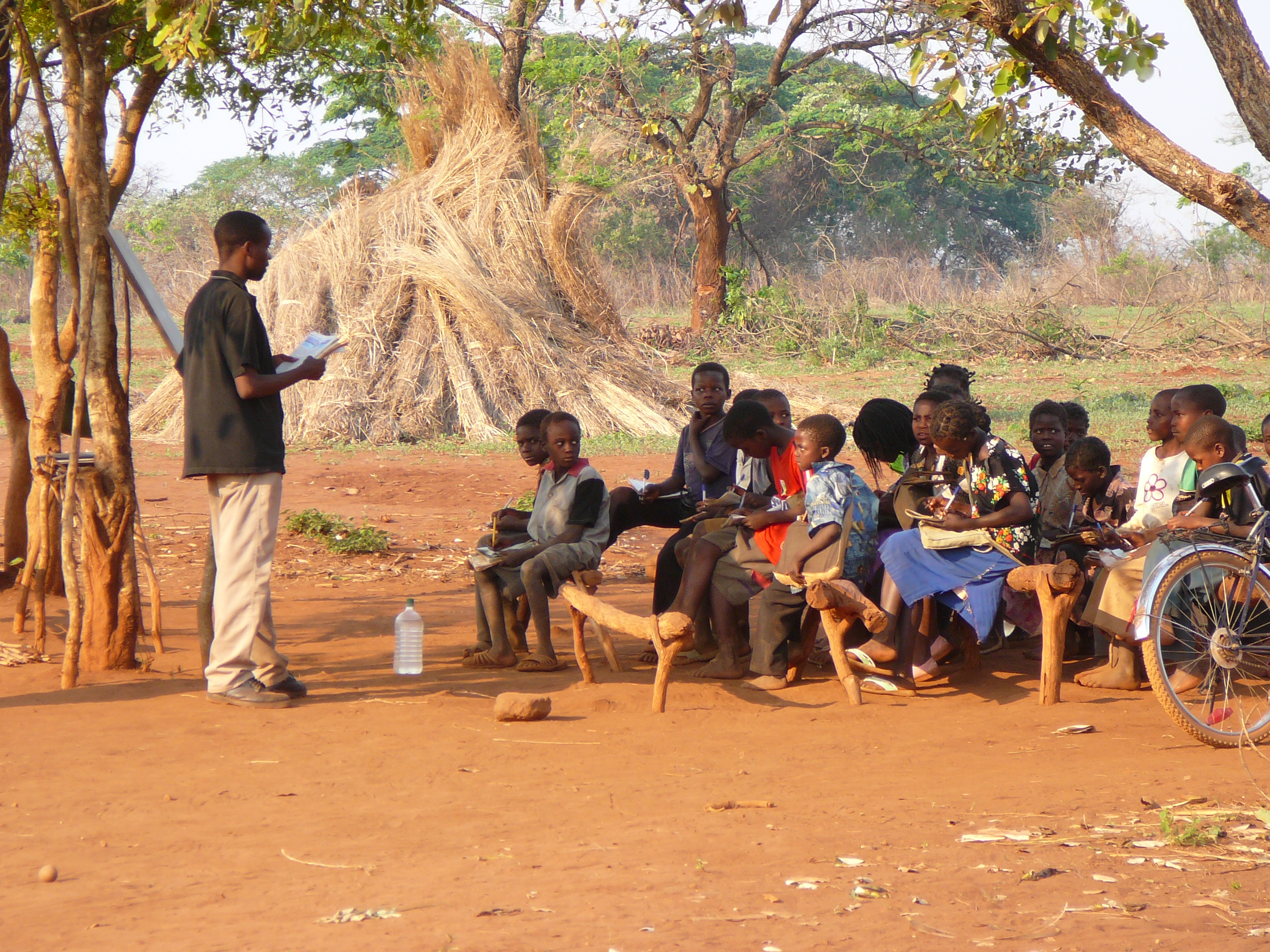 A Micro School in Mozambique